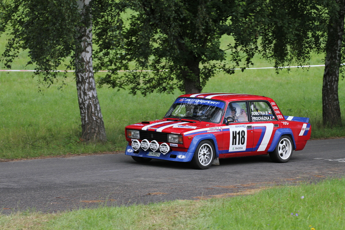 H18 Bronislav Sobotka - Zdeněk Procházka (CZE) - Lada VFTS / group B / 1985, replica 2010